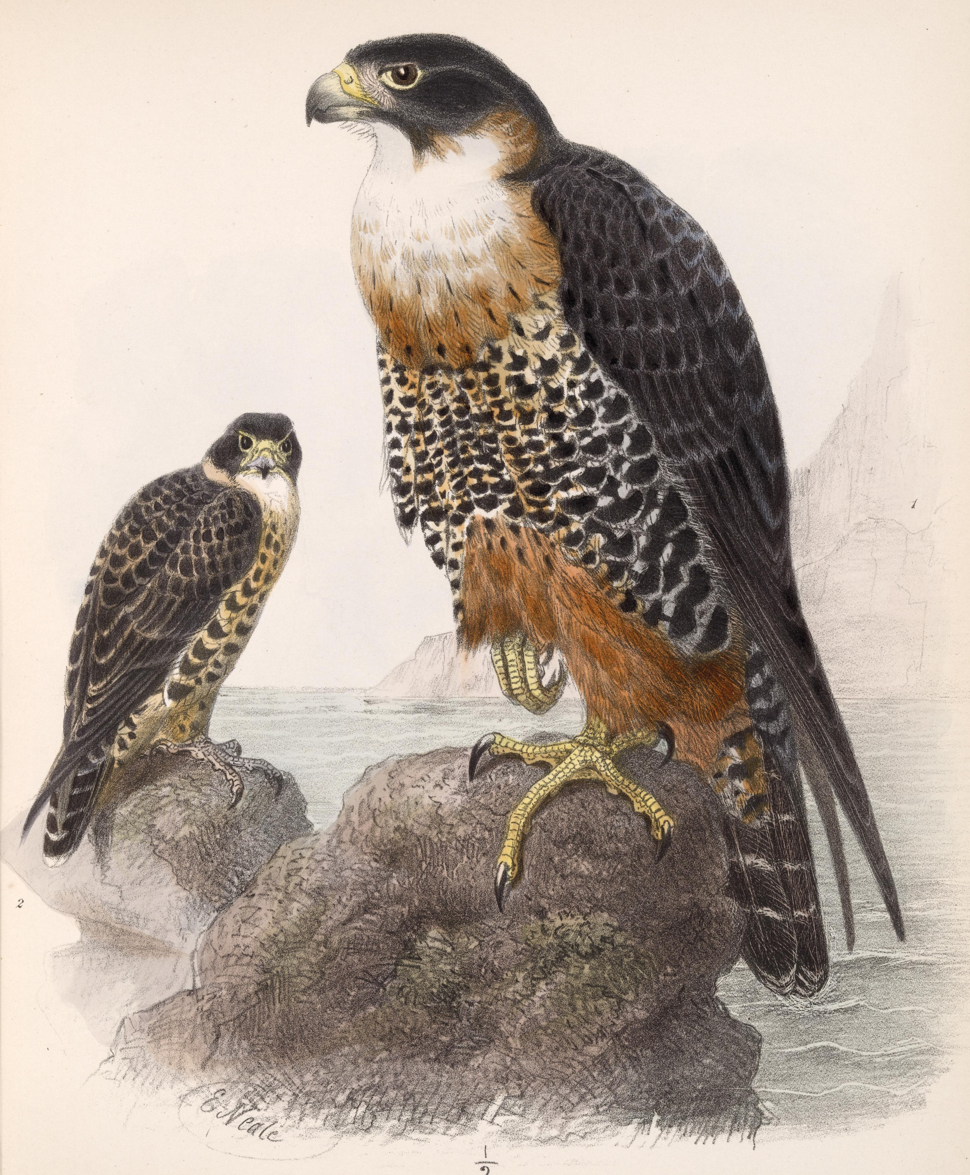 « Falco diroleucus » = Falco deiroleucus (Orange-breasted Falcon) - adult and juvenile